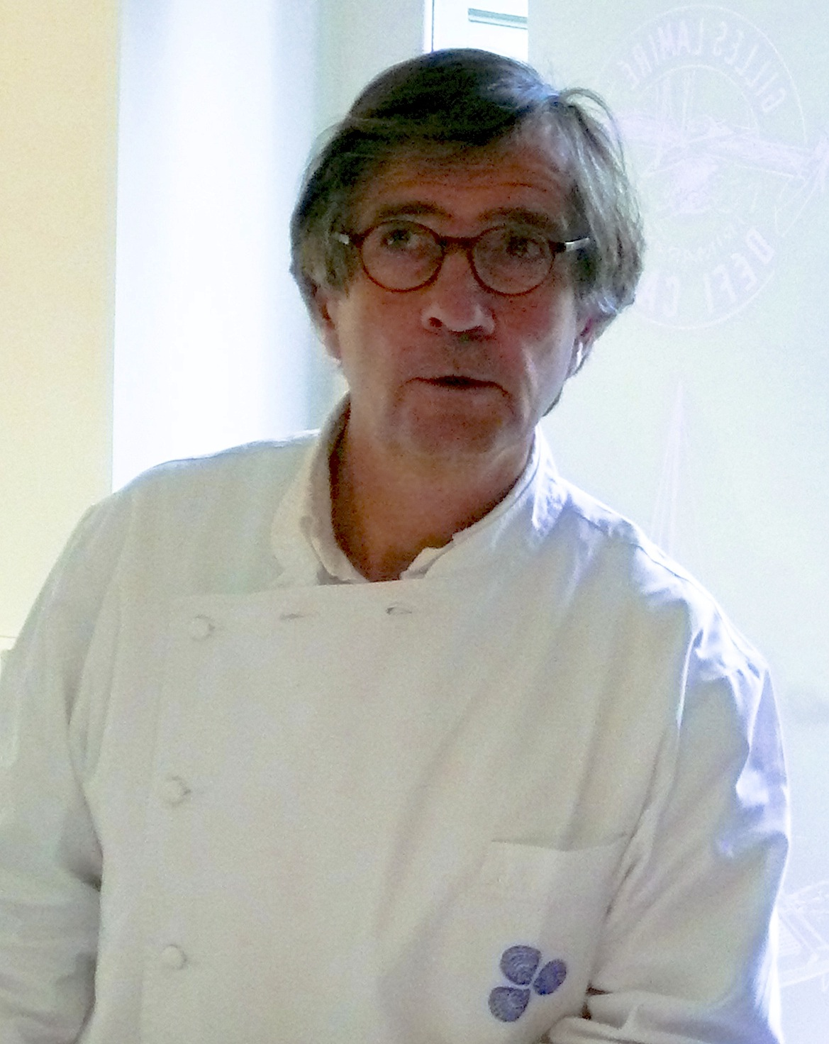 Olivier Roellinger at cancale 2010